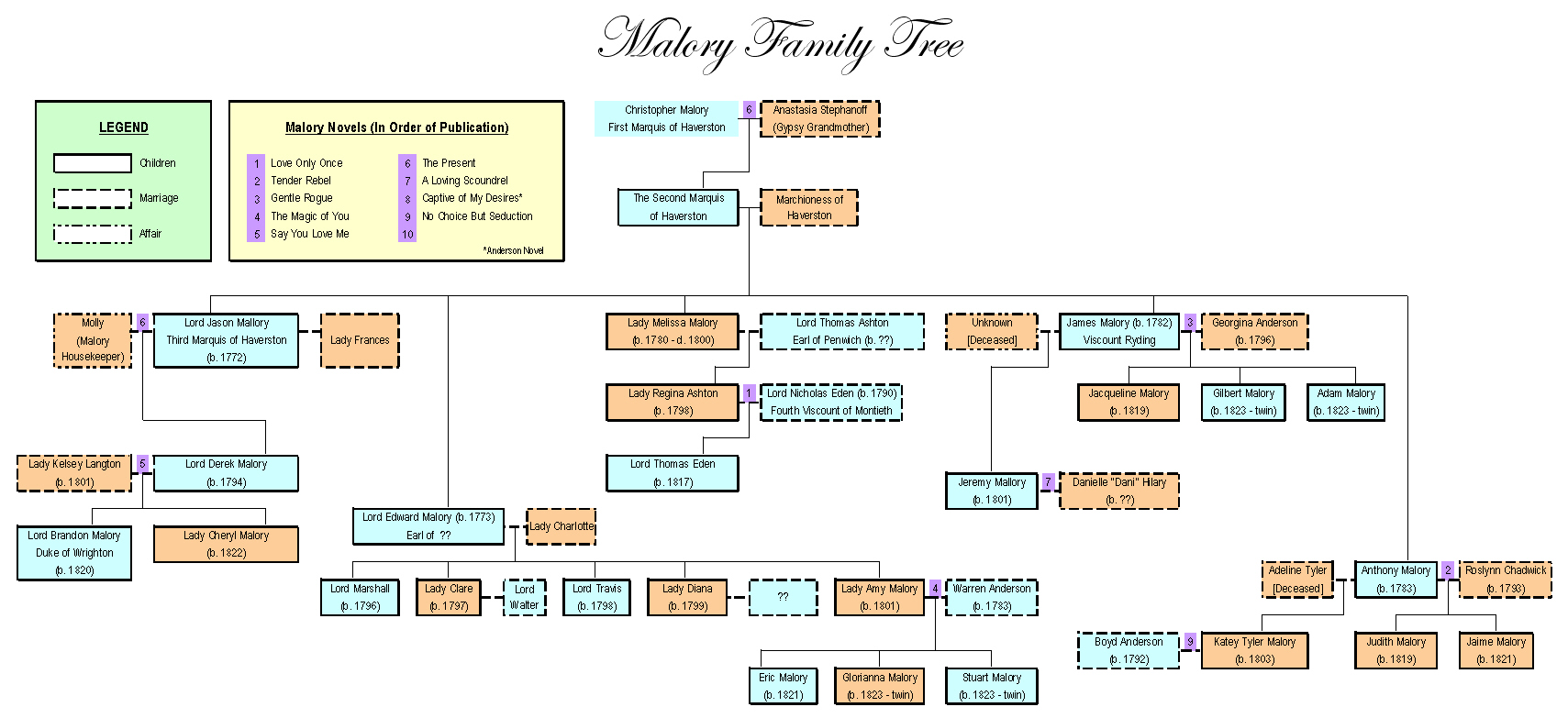 Referenced books by Johanna Lindsey and other user-created family trees to put together a new and updated one.